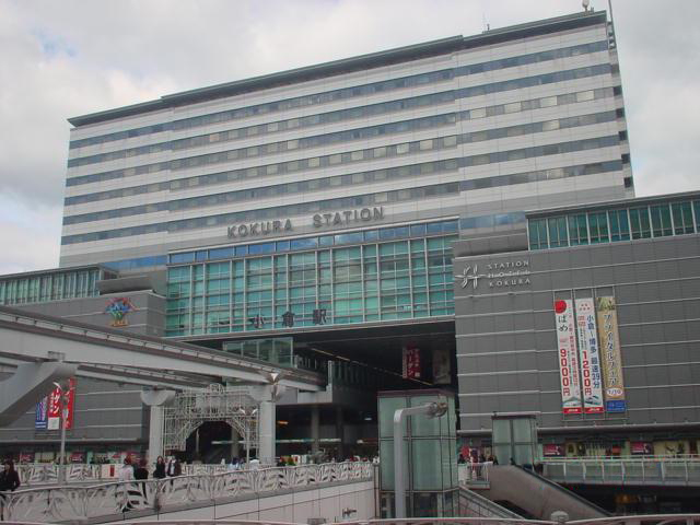 Kokura station, Kitakyushu, showing the monoral line going into the station. This photo was taken from in front of the Isetan department store. The station complex includes the Amu Plaza shopping zone and the Station Hotel. Photo taken by Ian Ruxton (Historian). January 5, 2005.